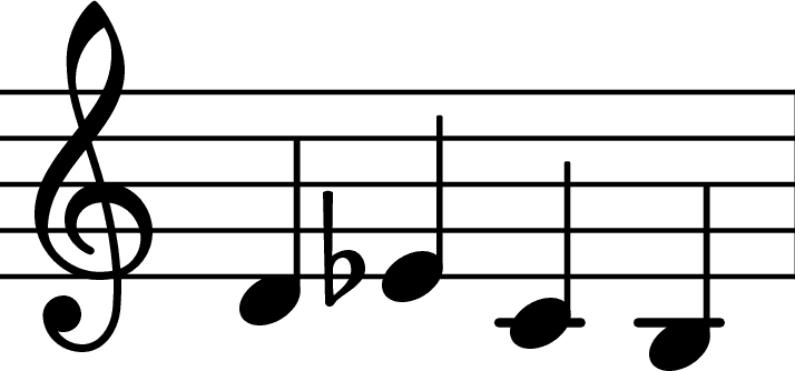 image created by User: Markalexander100